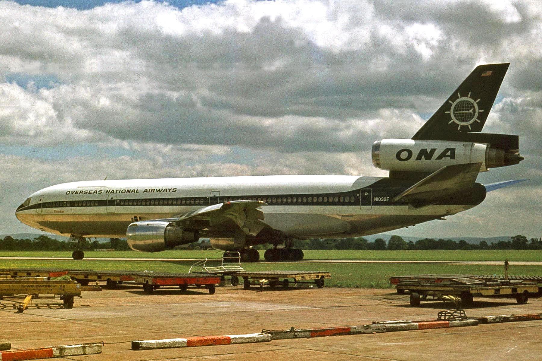 A picture of an airplane